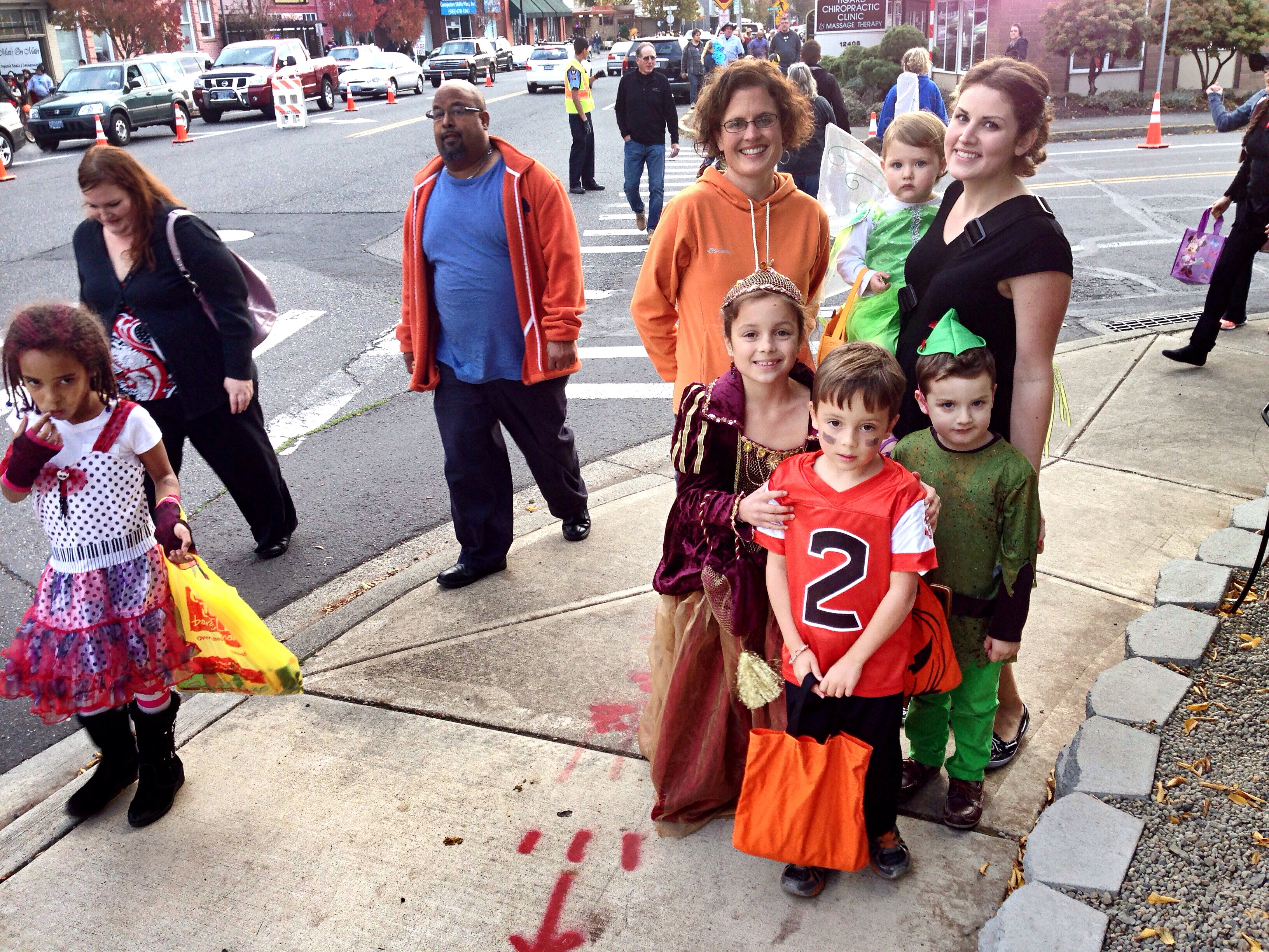 Halloween in Oregon